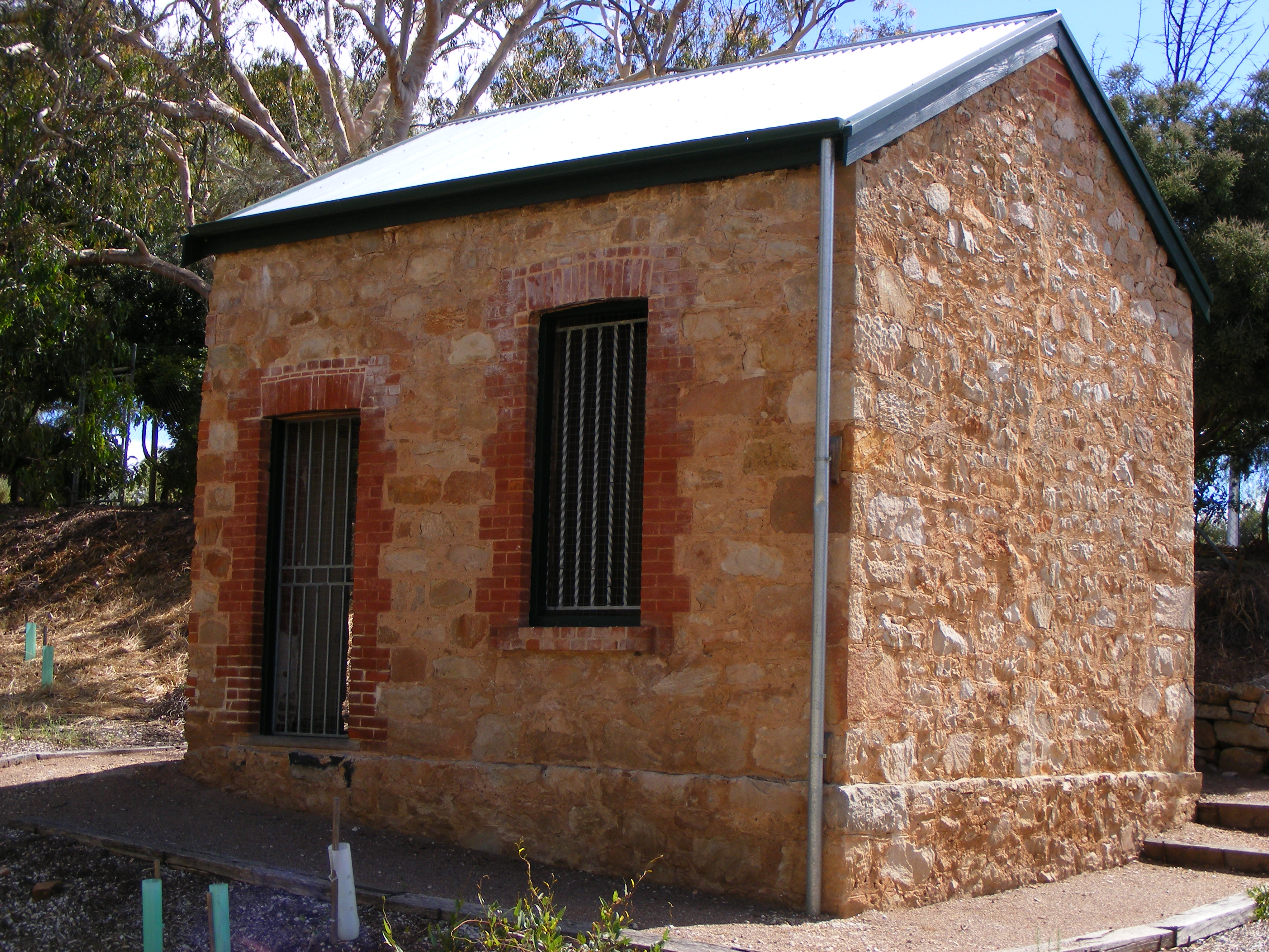 Ellis cottage - build in 1854 in Tea Tree gully, Adelaide, South Australia. Now at the edge of Anstey Hill recreation park